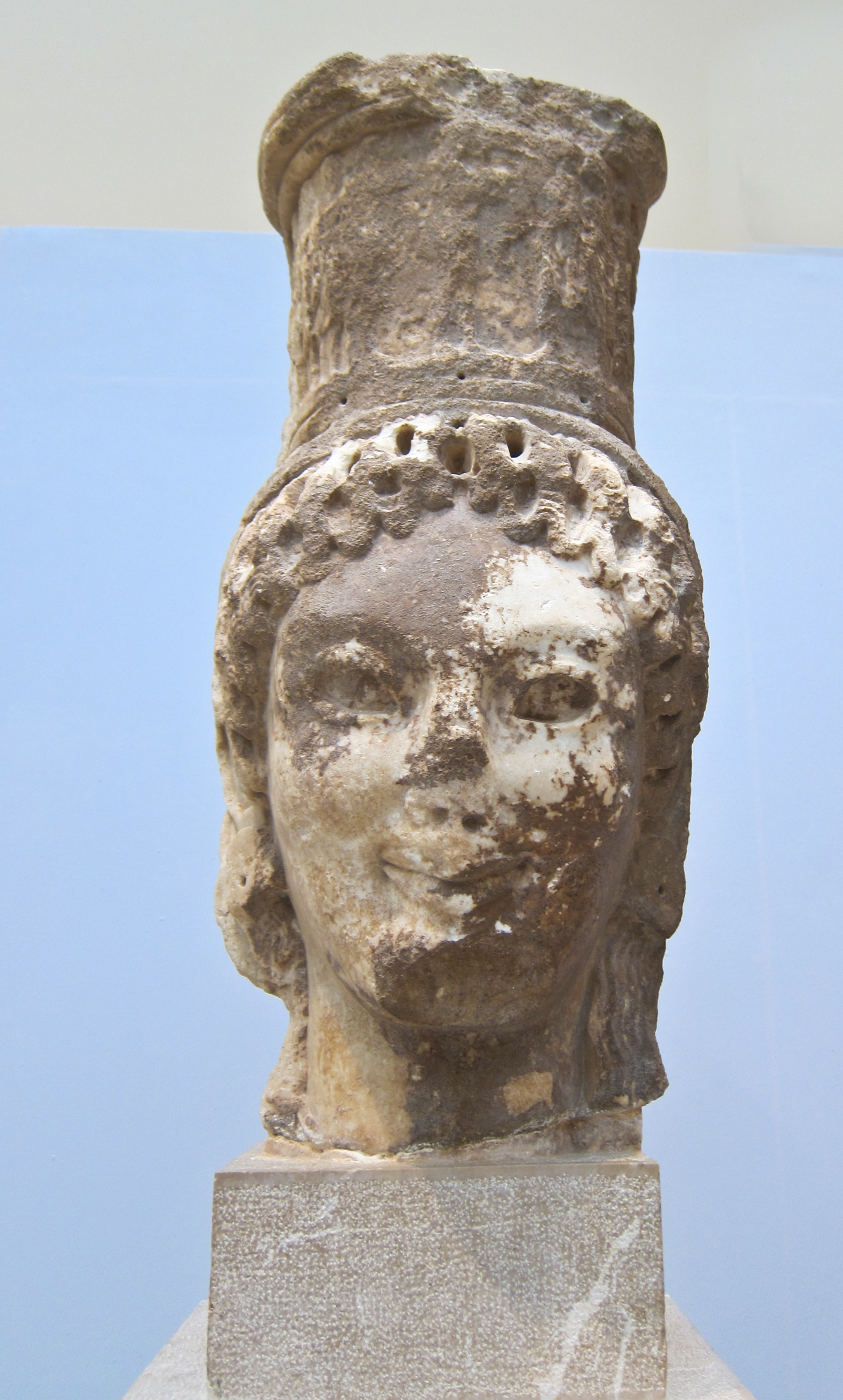 Head of a Caryatid, mid 6th C. BC, Delphi, Greece